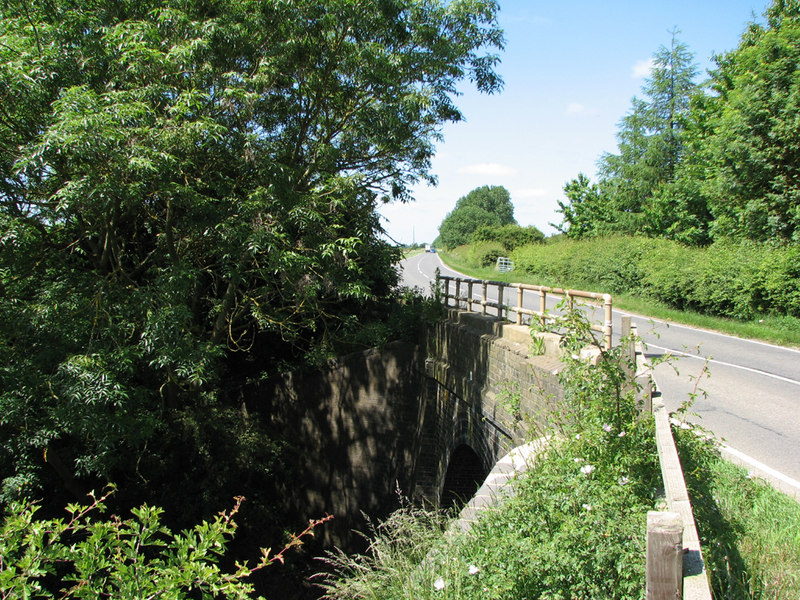 Stainby: the last bridge on the High Dyke Branch - detail